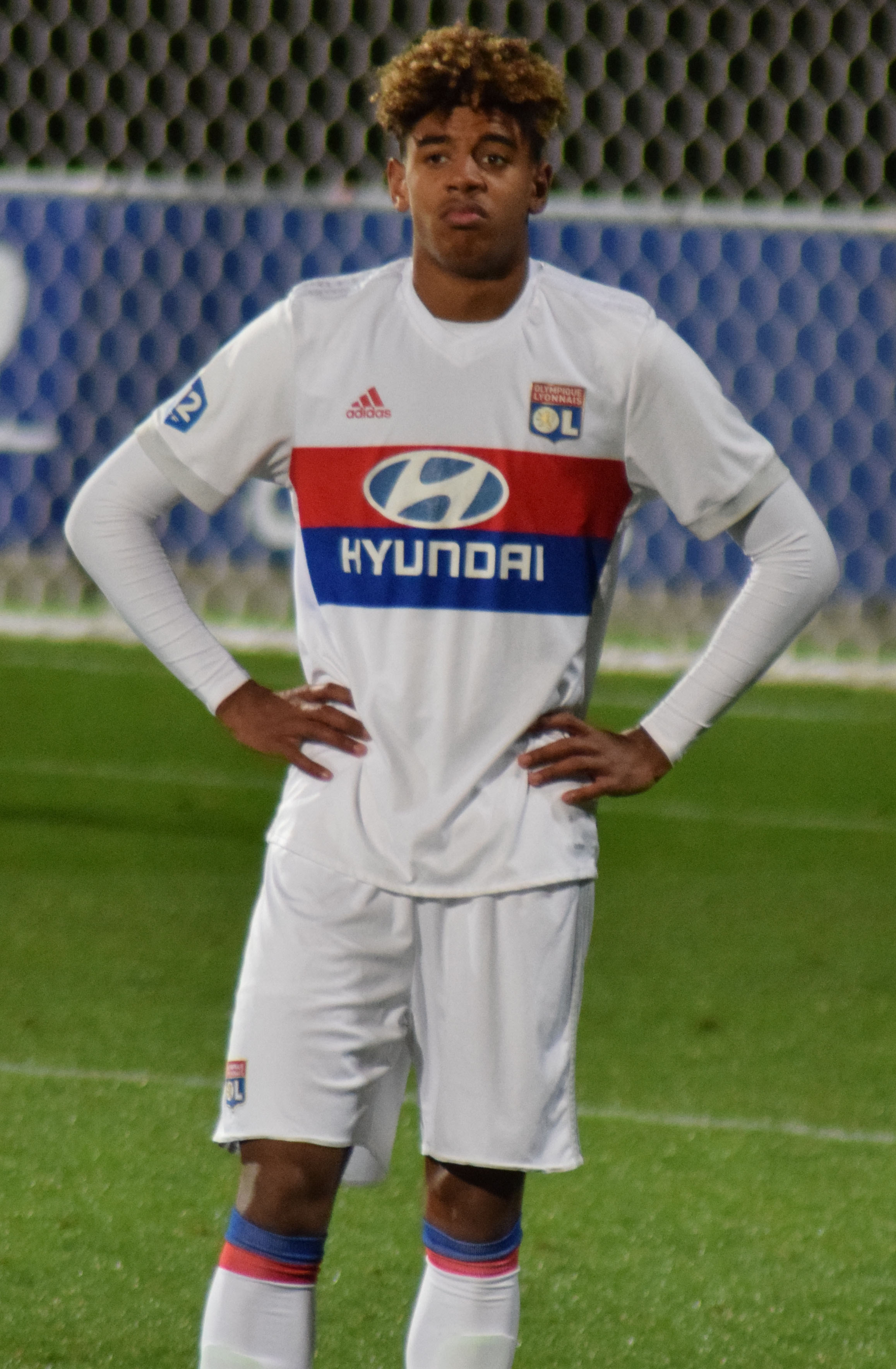 Willem Geubbels playing for Olympique Lyon B in 2017.